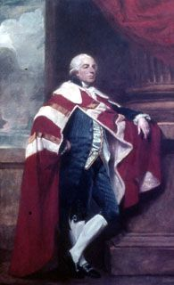 Francis Reynolds-Moreton, 3rd Baron Ducie